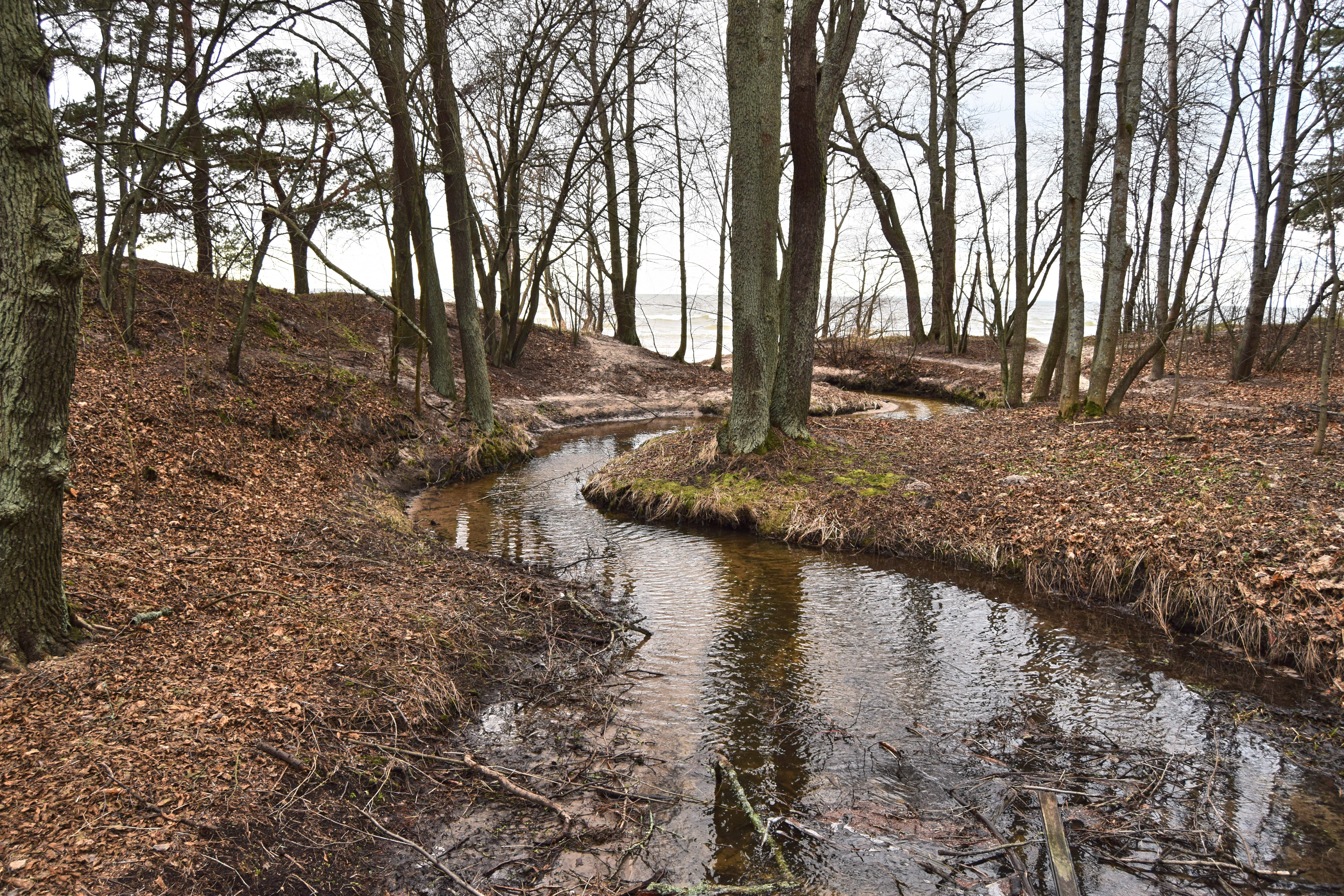 Mähe stream